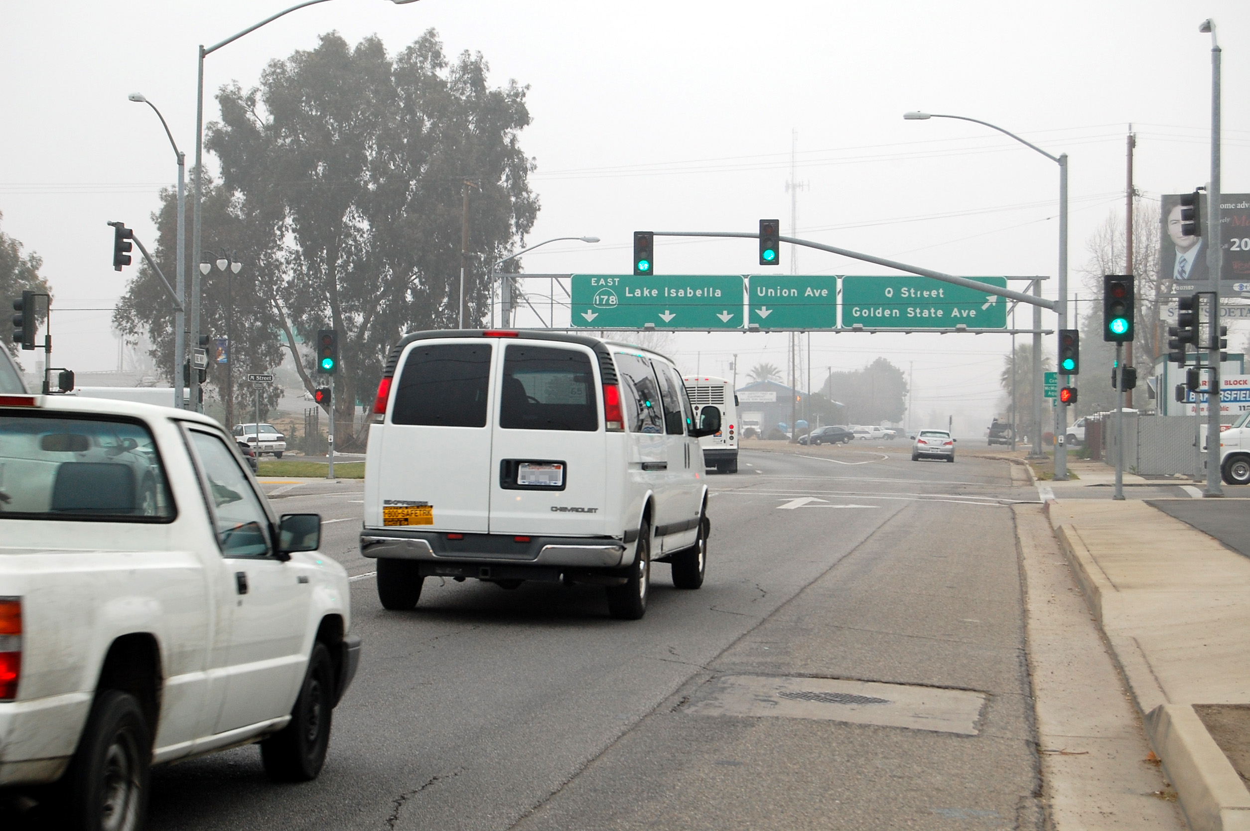 a foggy day along SR178 at M Street. About this image: Was captured using film or digital camera equipment. May lack artistic merit but documents the existence of the subject(s). May have had elements including colors, composition, gamma, exposure, or size adjusted using camera-, lens-, scanner-settings or by applying image editing software. May have had aberrations, flare, or reflections removed in order that the subject of the image is more clearly visible. Is intended to be representative of the view of the subject that would be perceived by a human eye.